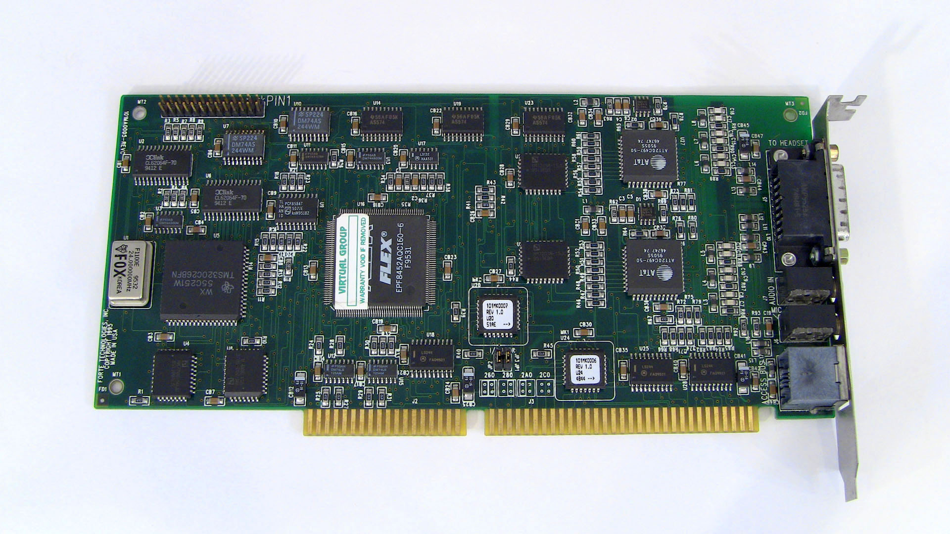 16-bit ISA interface board for Forte VFX1 virtual reality headgear.